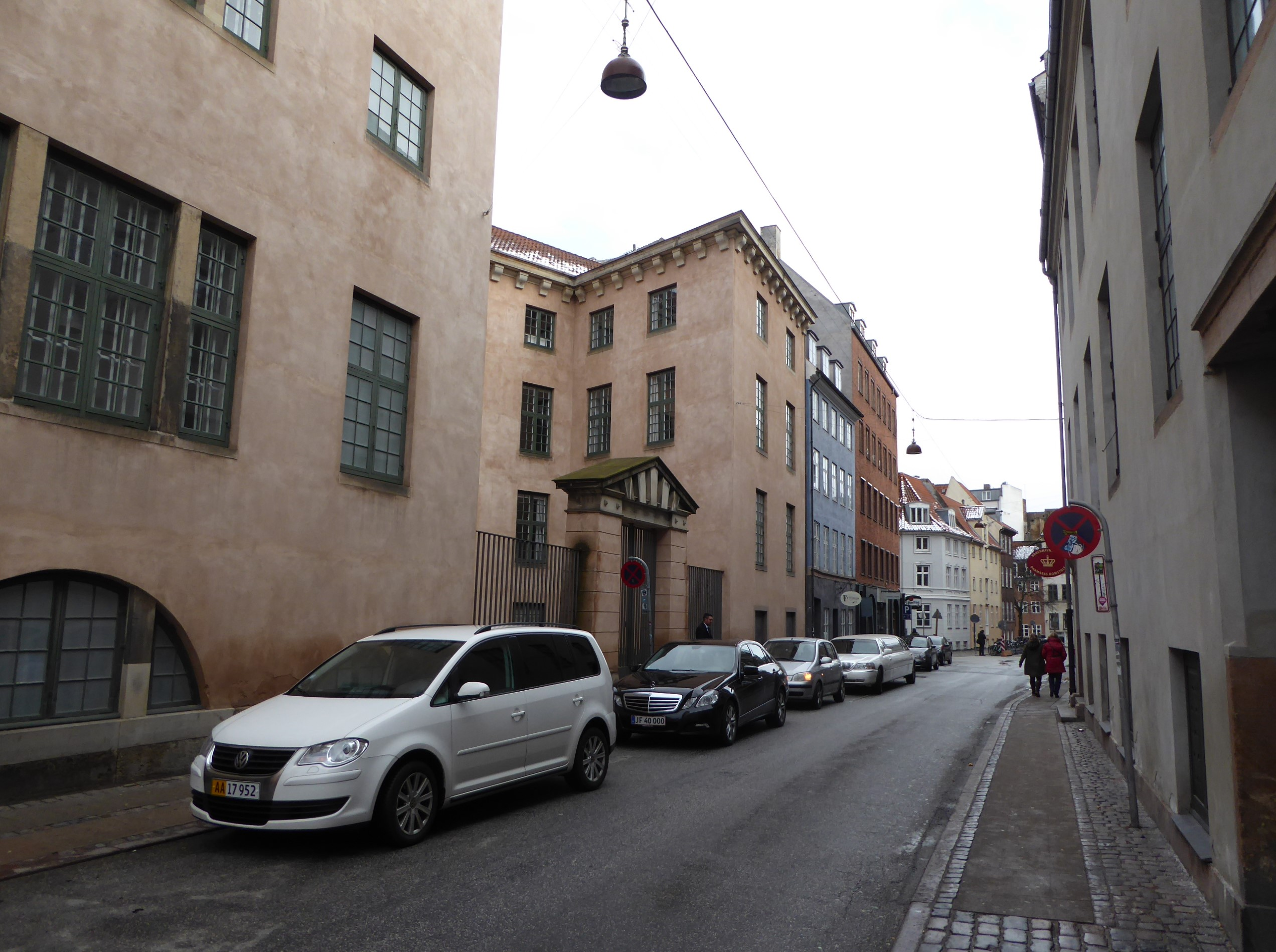 The street Hestemøllestræde in Indre By in Copenhagen.